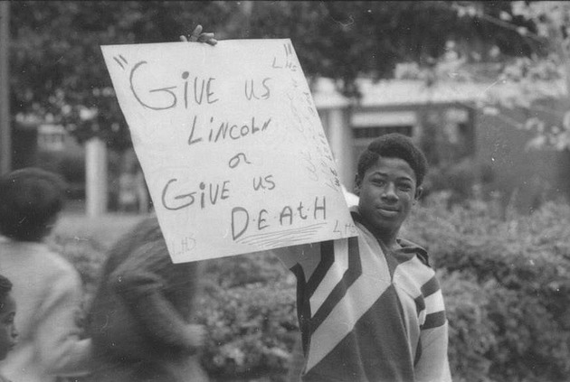 Image of the Lincoln High School protest in Gainesville, Florida dated 1969.